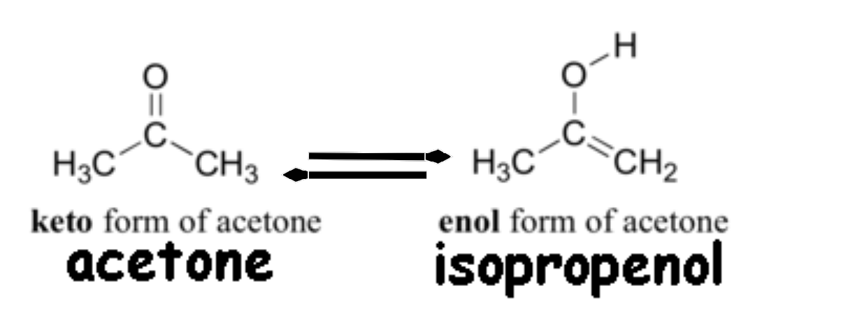 Tautomerism inter a cetone and an enol